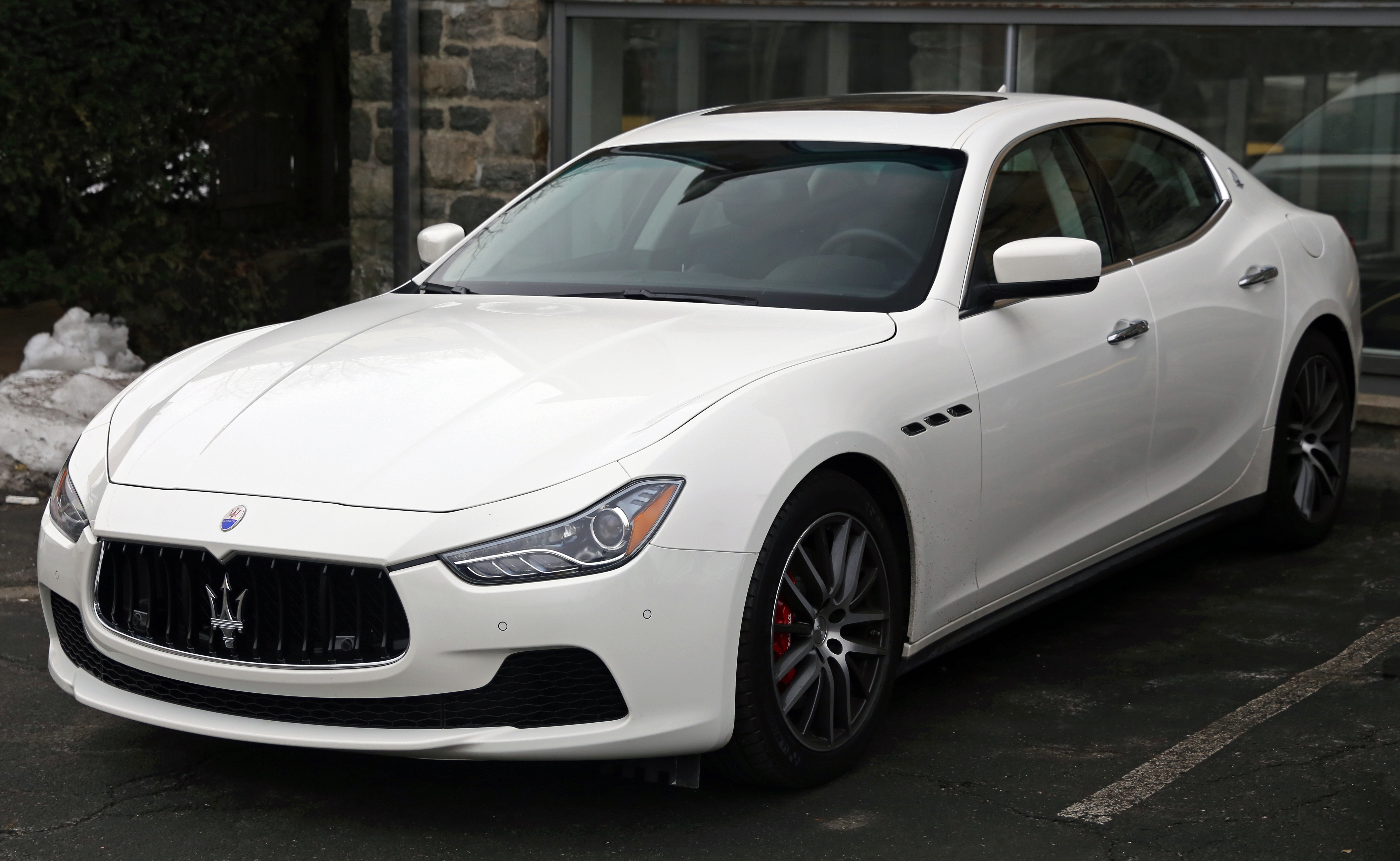 2014 Maserati Ghibli III Q4, front left view.